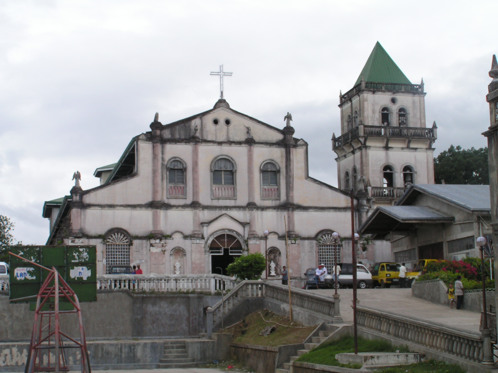 self-taken